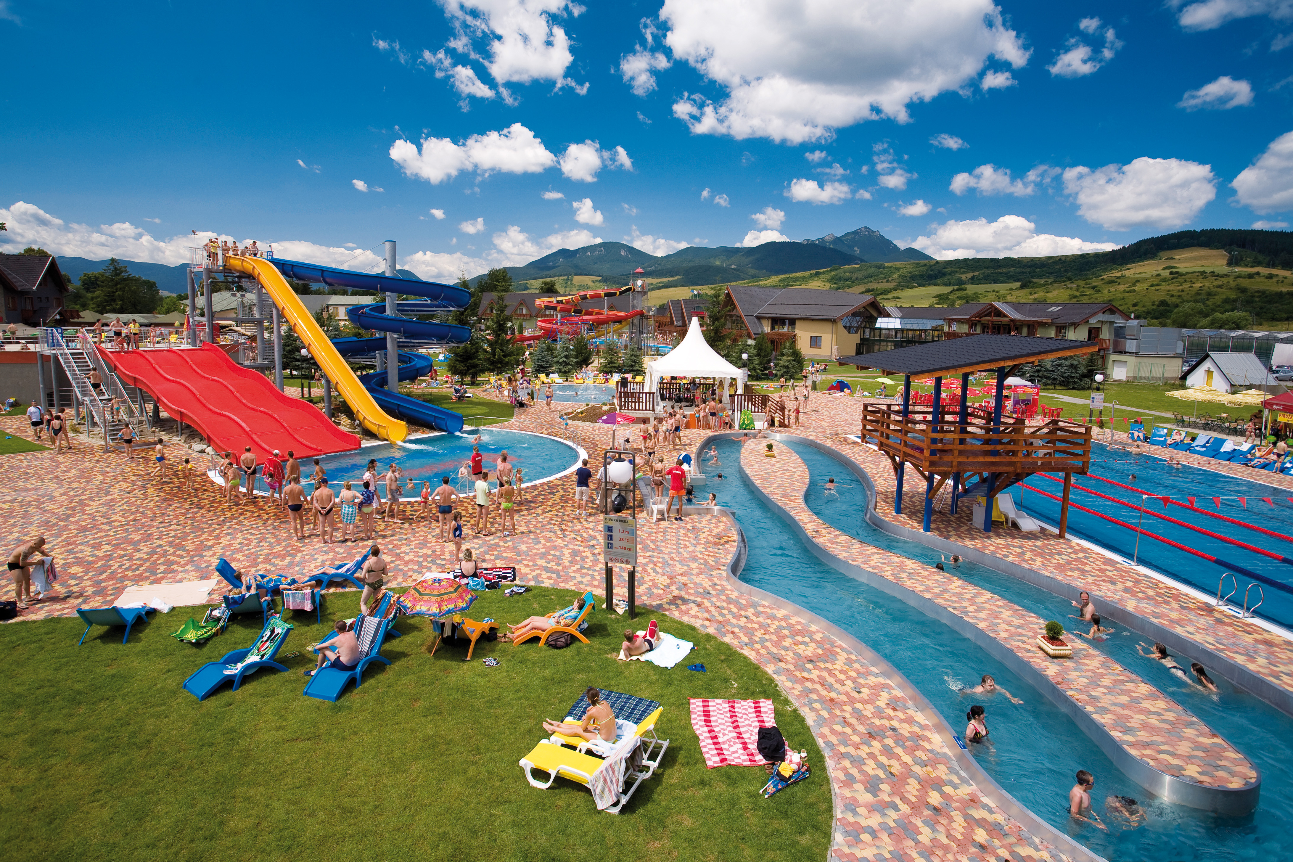 Thermal park Bešeňová